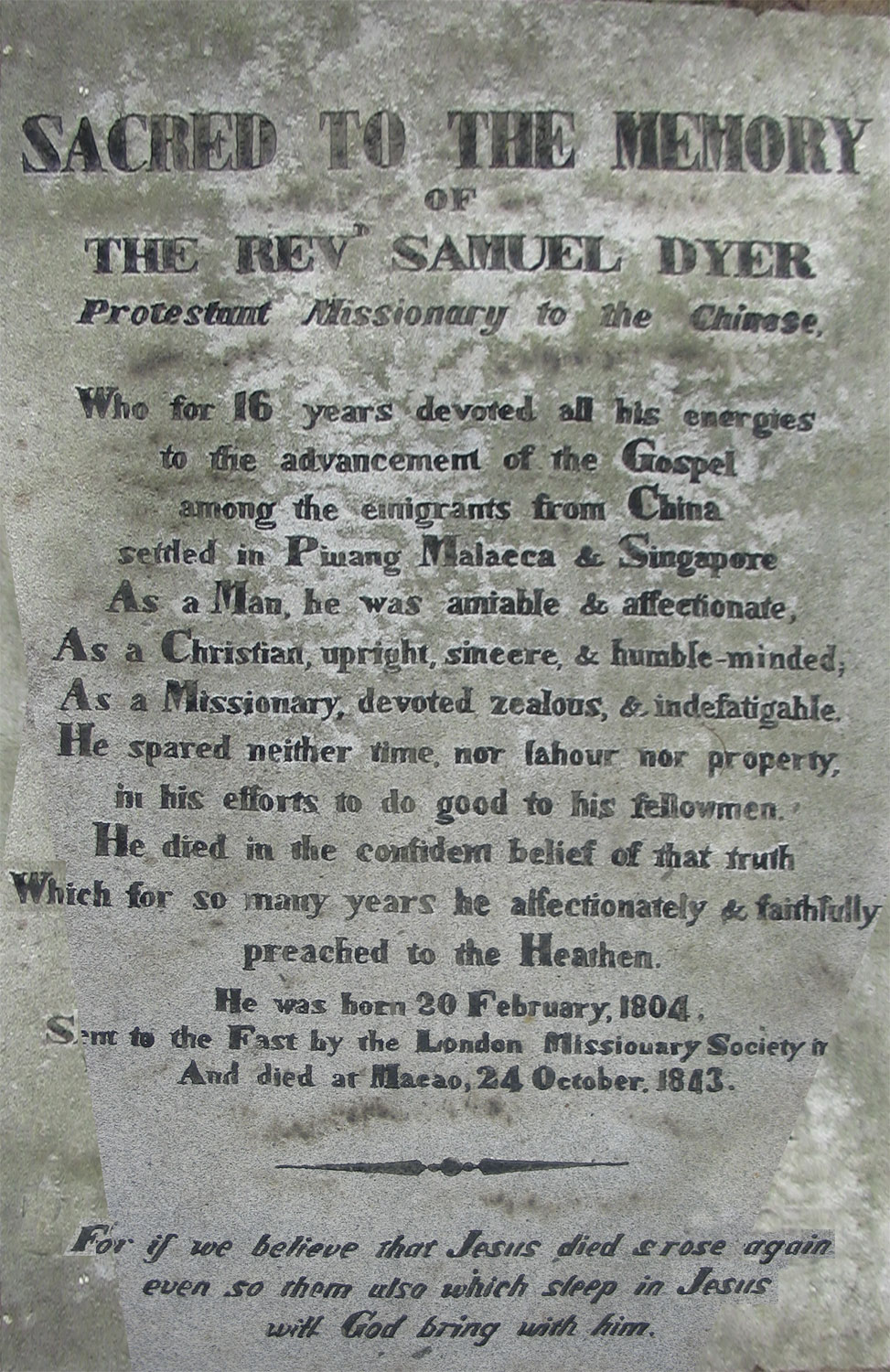 The gravestone of Samuel Dyer (20 February 1804 – 24 October 1843), a Protestant missionary to China, Malaysia and Singapore, in the Old Protestant Cemetery in Macau.